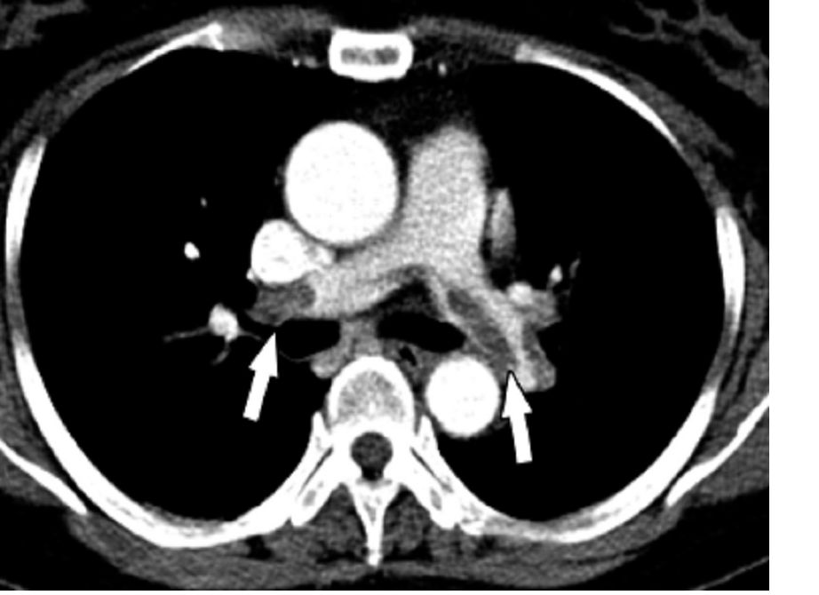 Chest Spiral CT (with and without contrast agent) showing multiples filling defects of principal branches, due to acute and chronic pulmonary embolism.